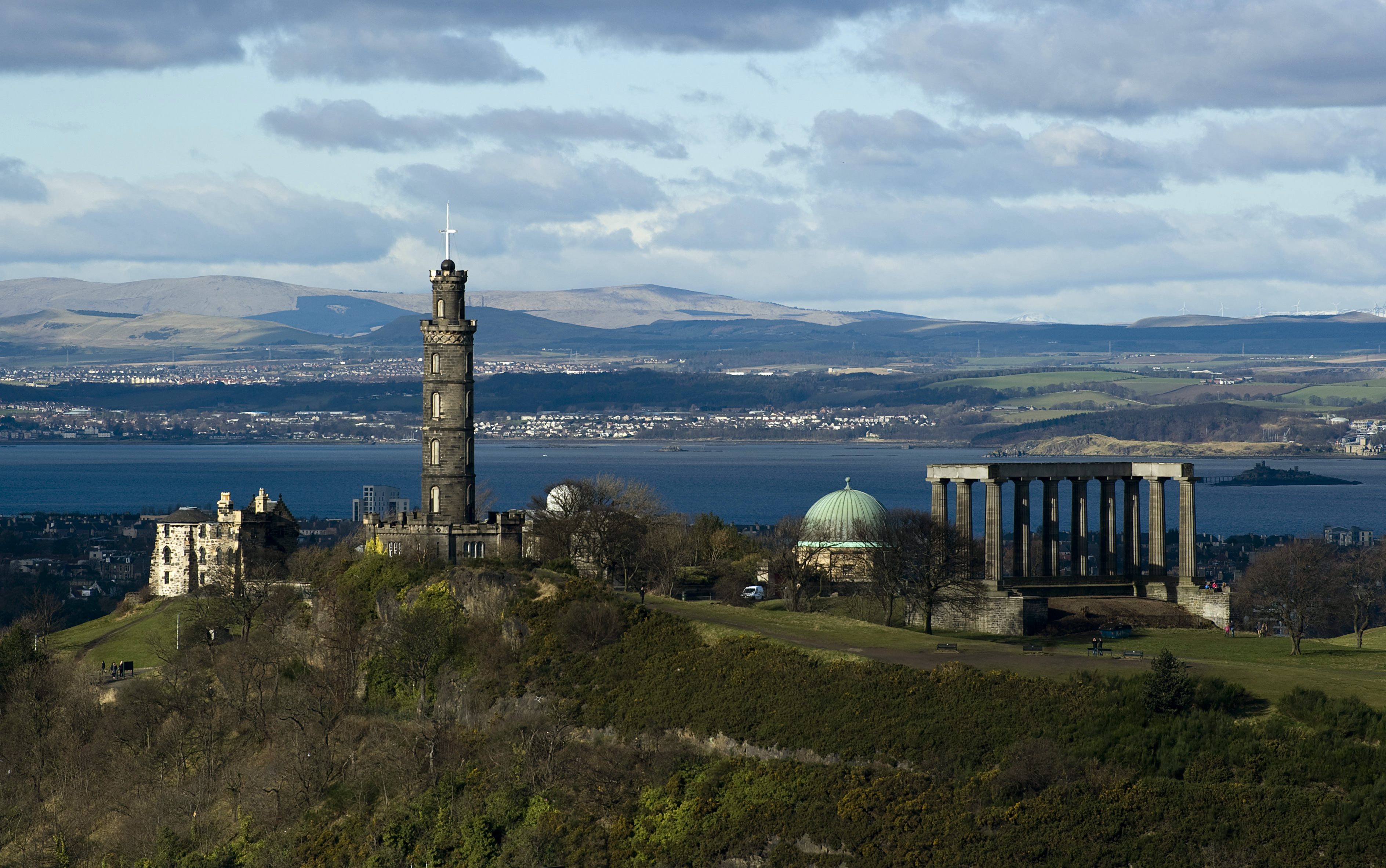 A view of Calton Hill from Salisbury Crag. The hill includes: the National Monument (Parthenon replica), the Nelson Monument (tall tower), the Old Observatory House (house on left) and the City Observatory (green dome). The Firth of Forth is the river (or Fjord if you prefer) in the background.